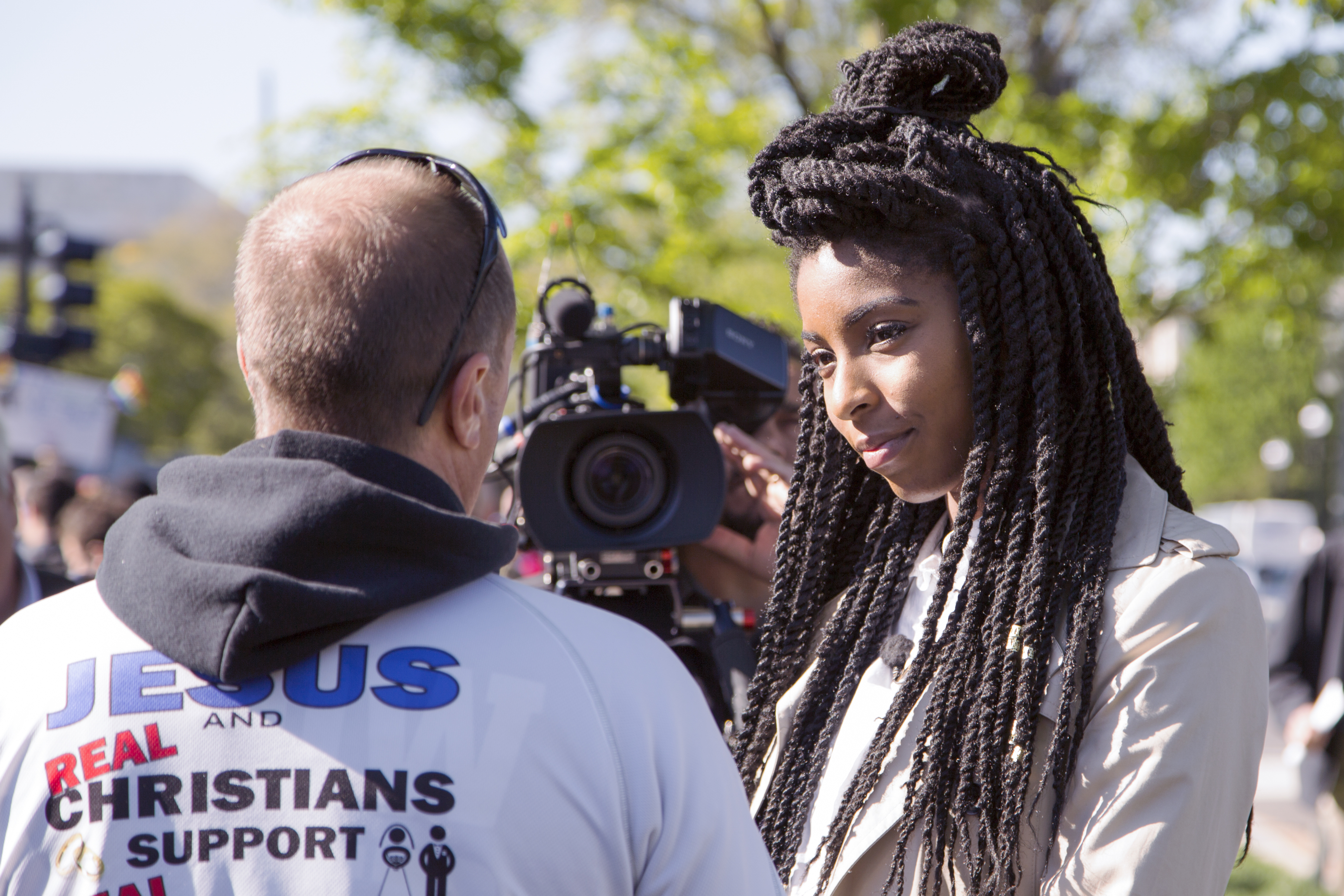 Jessica Williams of The Daily Show interviews someone outside the Supreme Court.